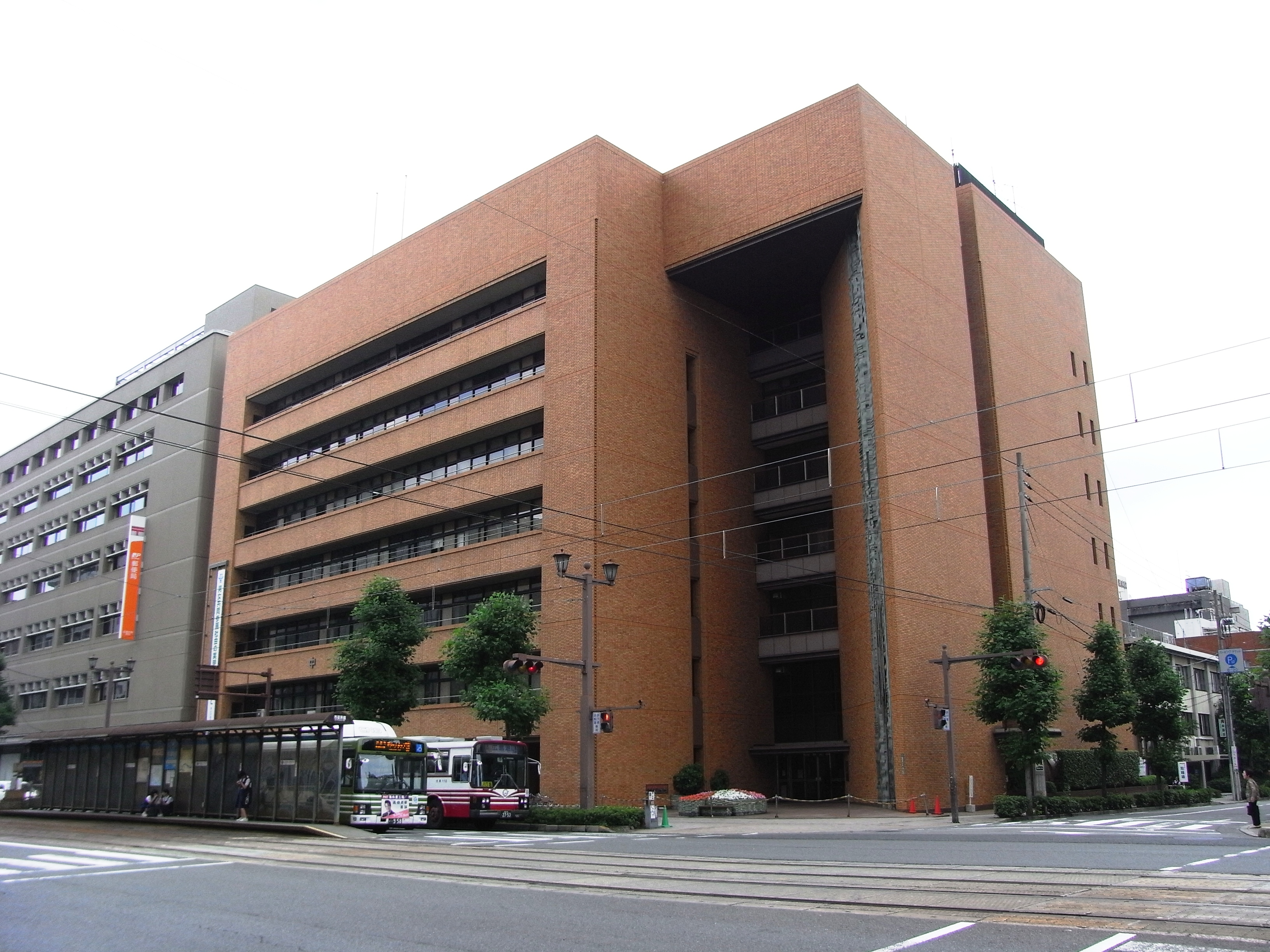 Naka Ward Office in Hiroshima City, Hiroshima Prefecture, Japan